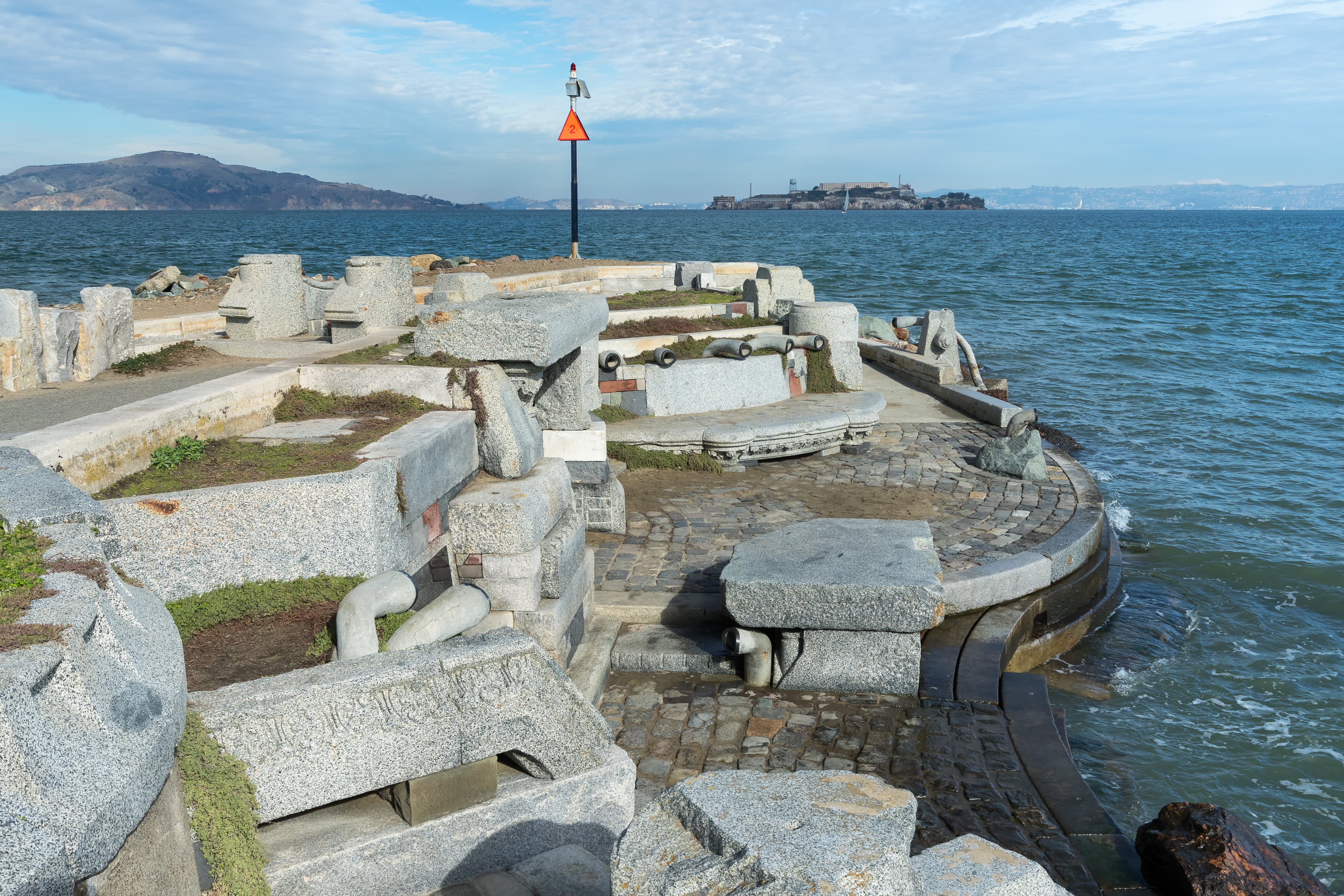 The Wave Organ, a wave-activated acoustic sculpture located on a jetty in the San Francisco Bay.